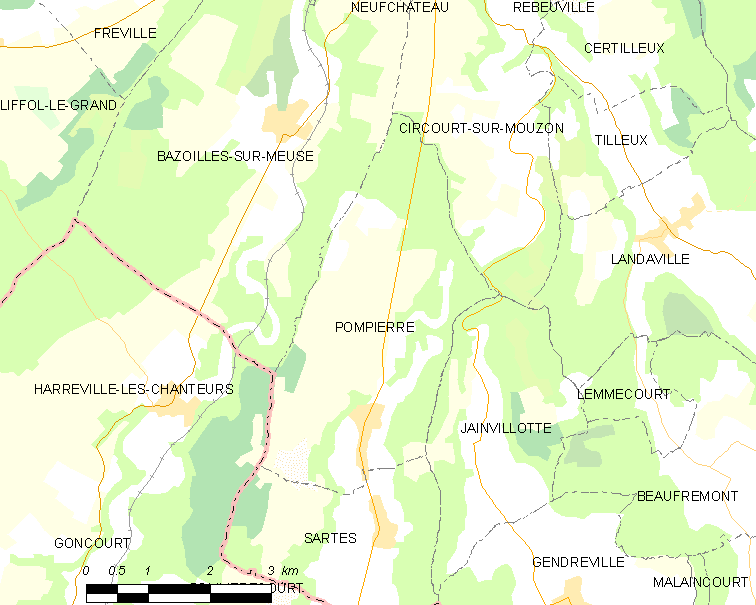 Map of French municipality Pompierre